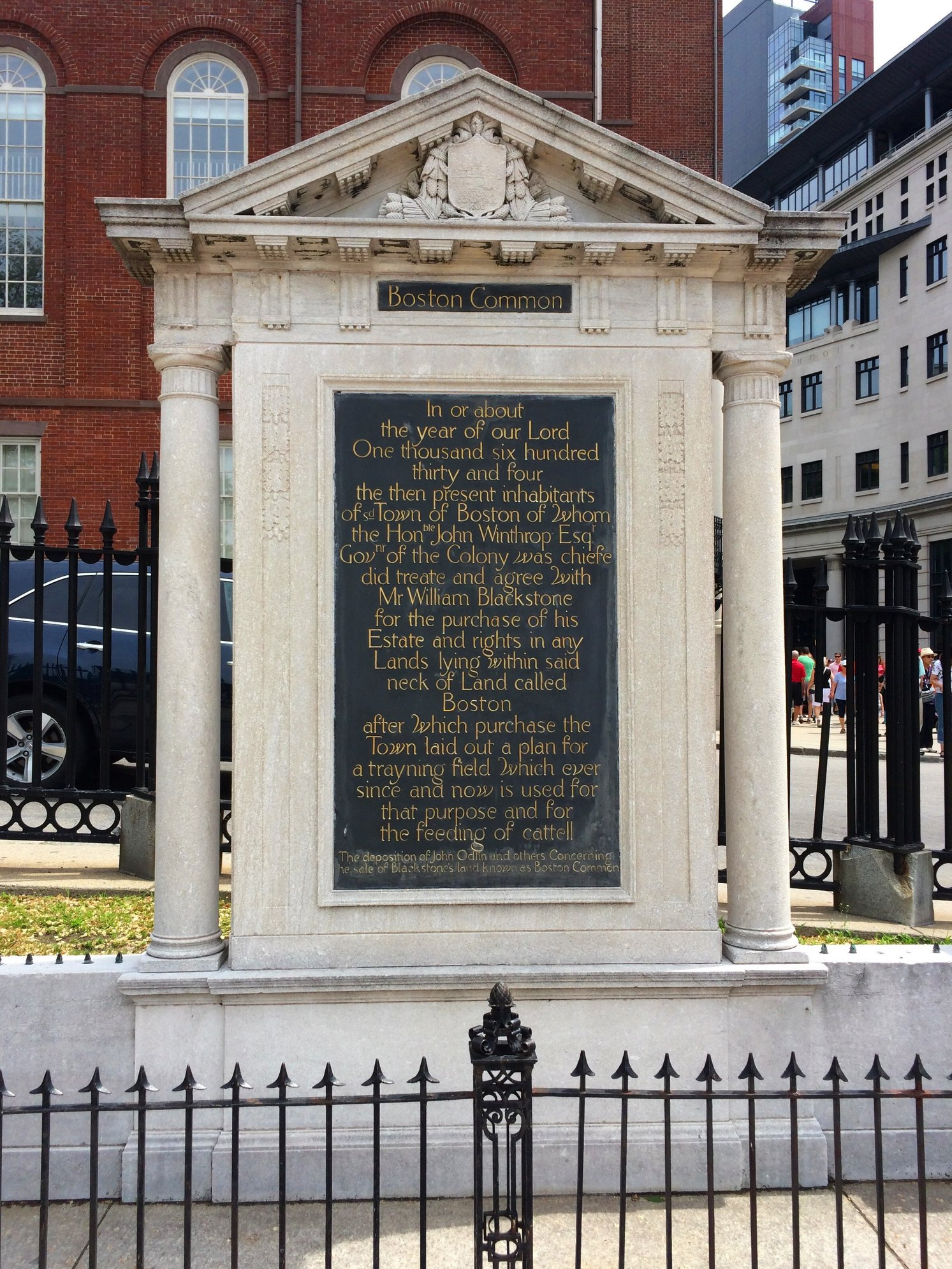 A plaque near the corner of Park and Tremont Streets (which looks fairly old and historic itself) relates the early history of Boston Common.